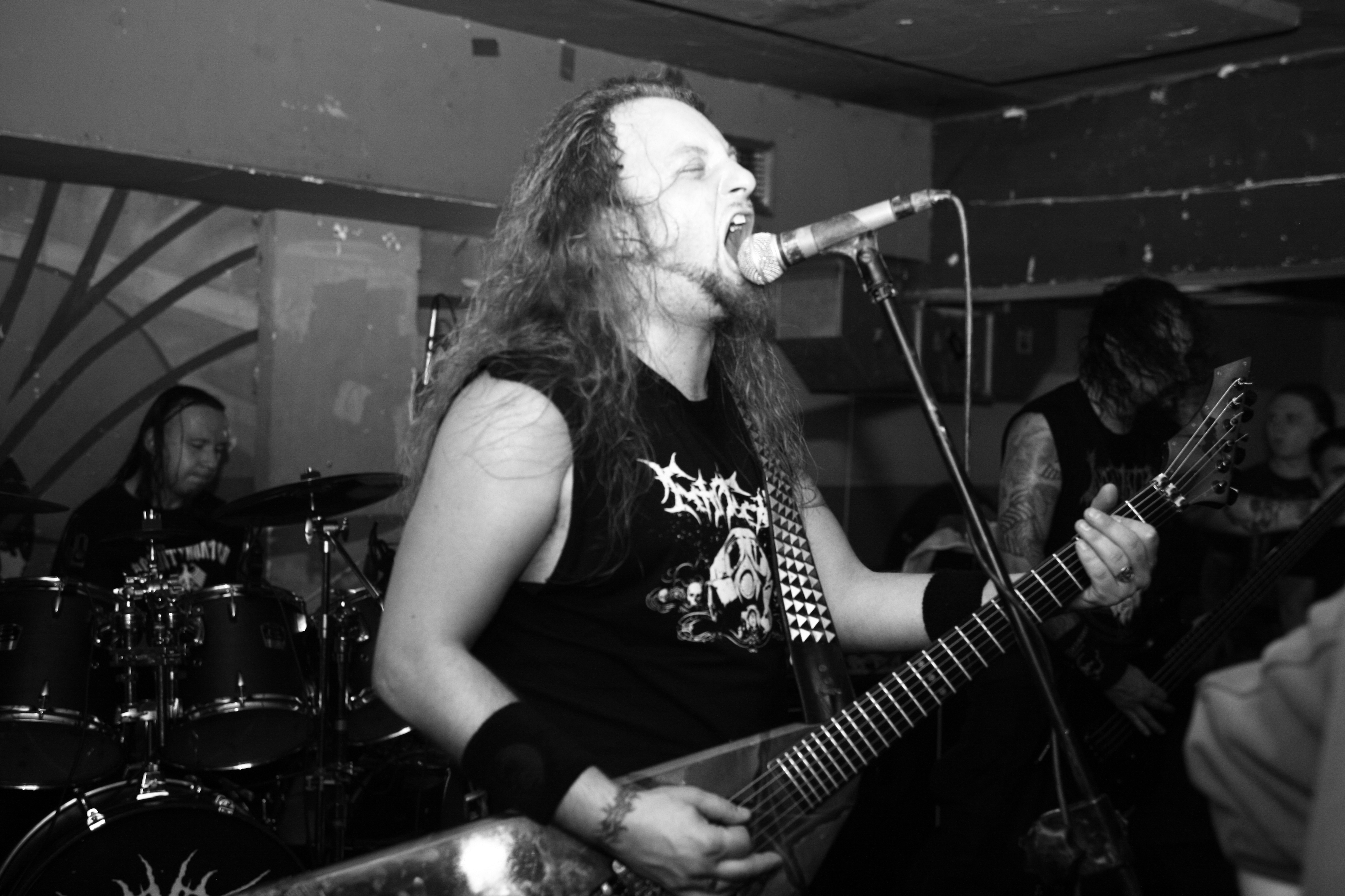 Christ Agony